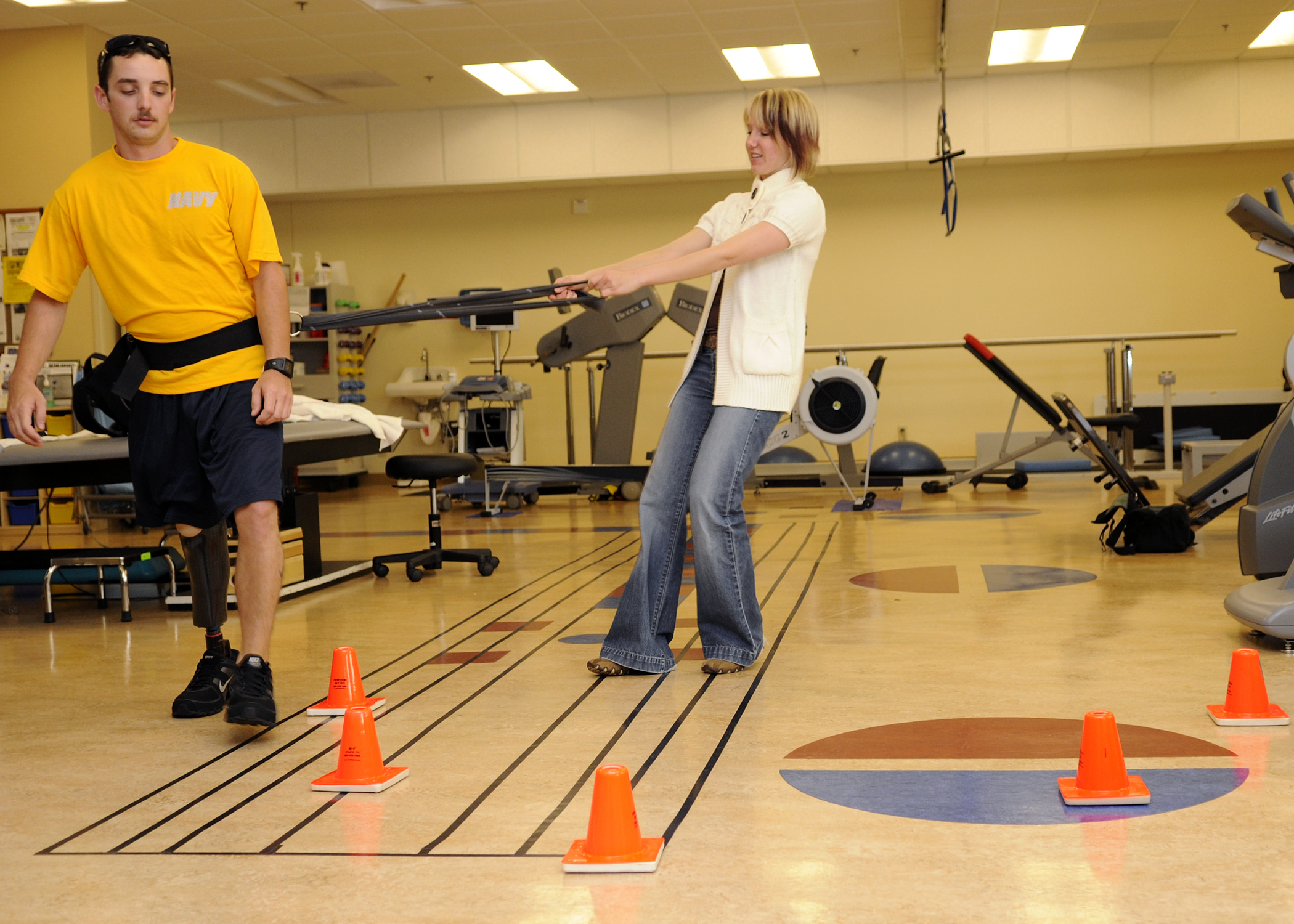 SAN DIEGO (July 23, 2010) Machinist's Mate Fireman George F. Avinger practices cone drills during physical therapy in the Comprehensive Combat and Complex Casualty Care facility at Naval Medical Center San Diego with physical therapist assistant Kristin Valente. Avinger lost his right leg during a motor vehicle accident in Oct. 2009 while stationed at Naval Base Guam. He has been receiving care at NMCSD since Nov. 2009. (U.S. Navy photo by Mass Communication Specialist 1st Class Anastasia Puscian/Released)